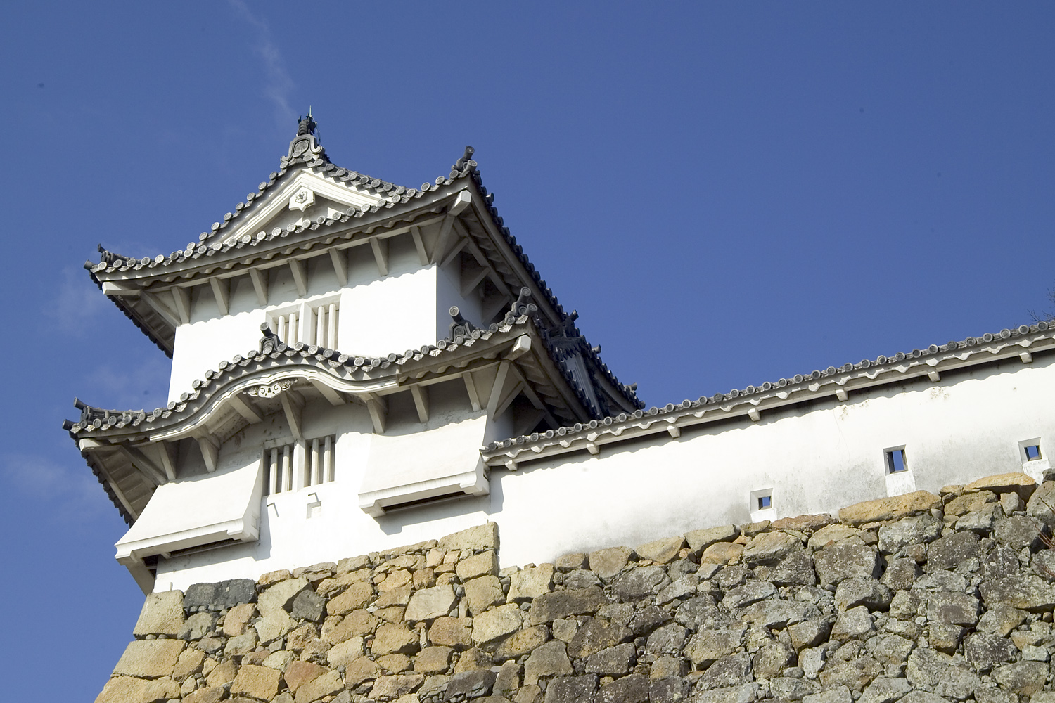 Wall and turret at Himeji Castle, Himeji, Hyogo, Japan. Windows for various defensive actions are visible. I took this photo and contribute my rights in the file to the public domain.